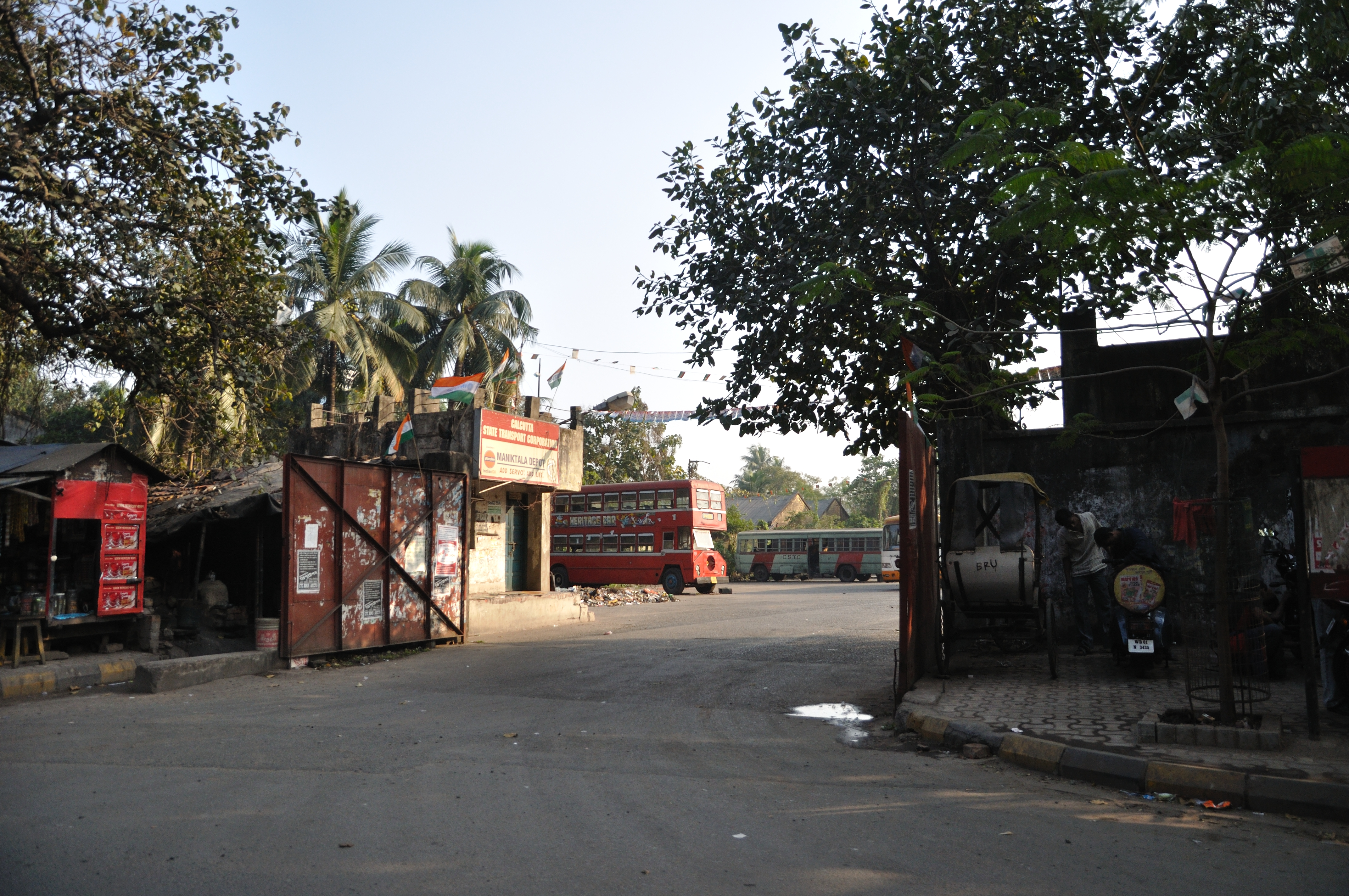 Photographed at Kolkata.